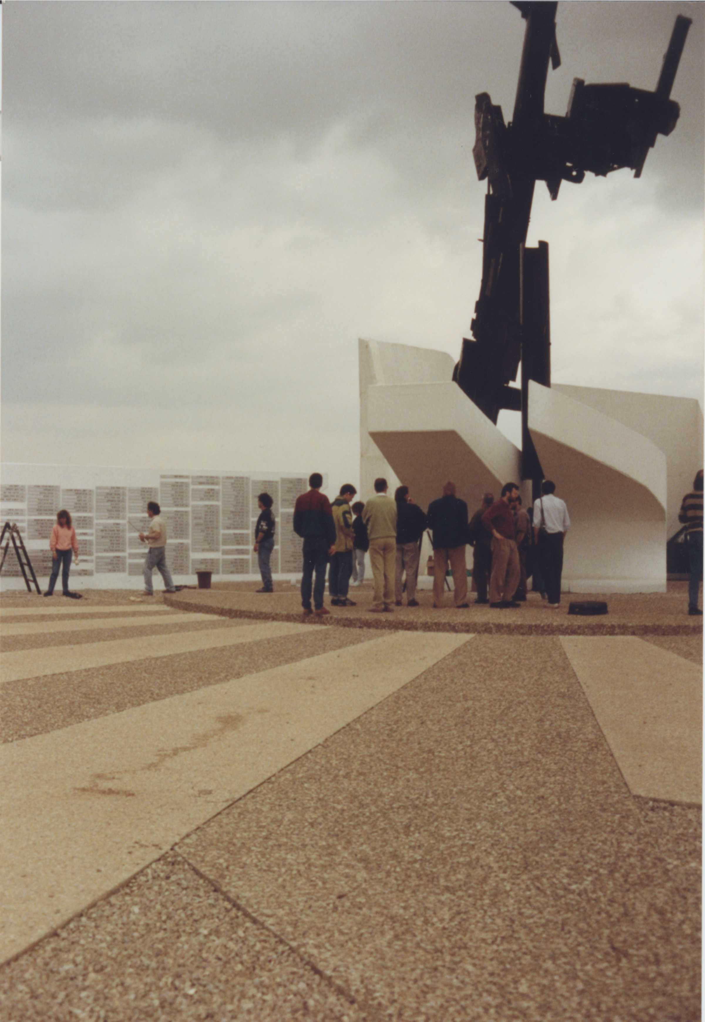 Jordan Valley Monument (Andartat Habikaa) near Yafit, West Bank